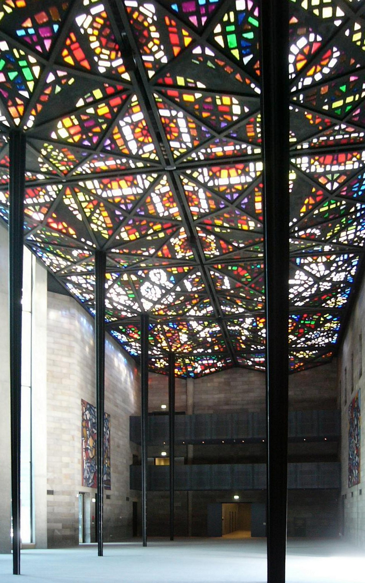 Glass ceiling by Leonard French National Gallery in Melbourne/Australia